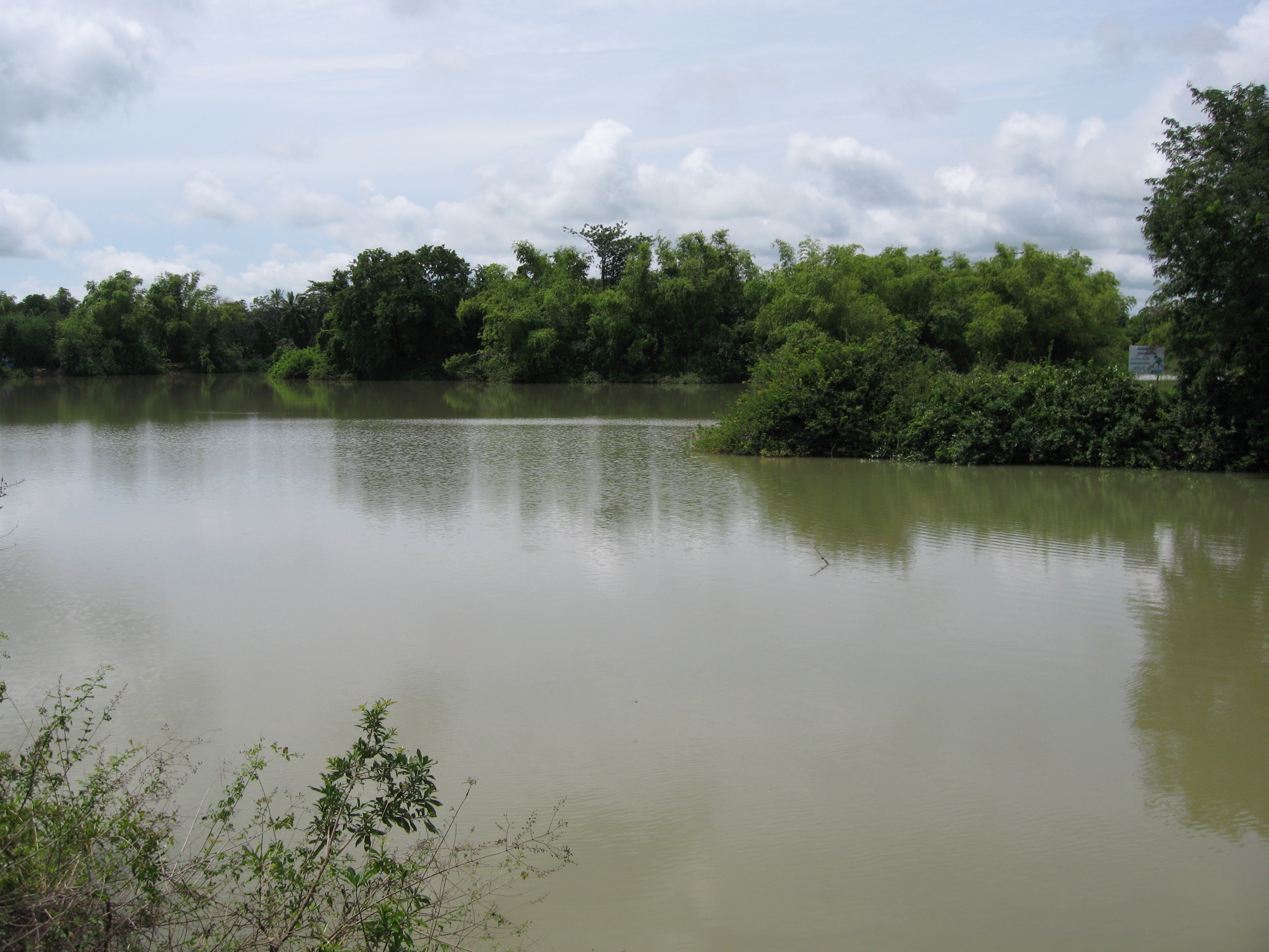 Small Lake in Serei​ Saophoan District, Banteay_Meanchey, Cambodia(មណ្ឌលអភិរក្សត្រីក្នុងស្ទឺងសិរីសោភ័ណស្រុកសិរីសោភ័ណ ខេត្តបន្ទាយមានជ័យ)